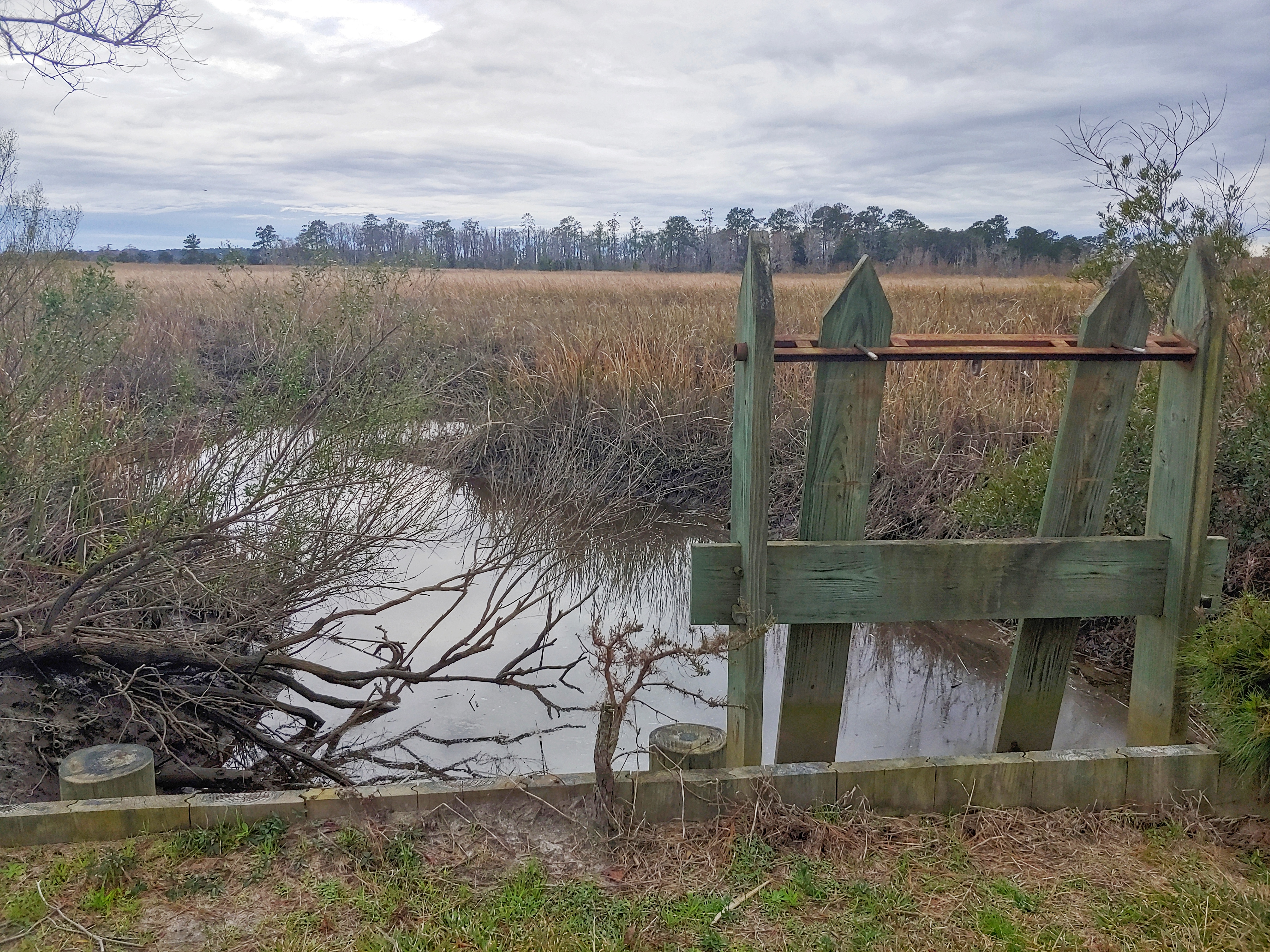 Rice trunk in ACE Basin NWR, Grove Plantation